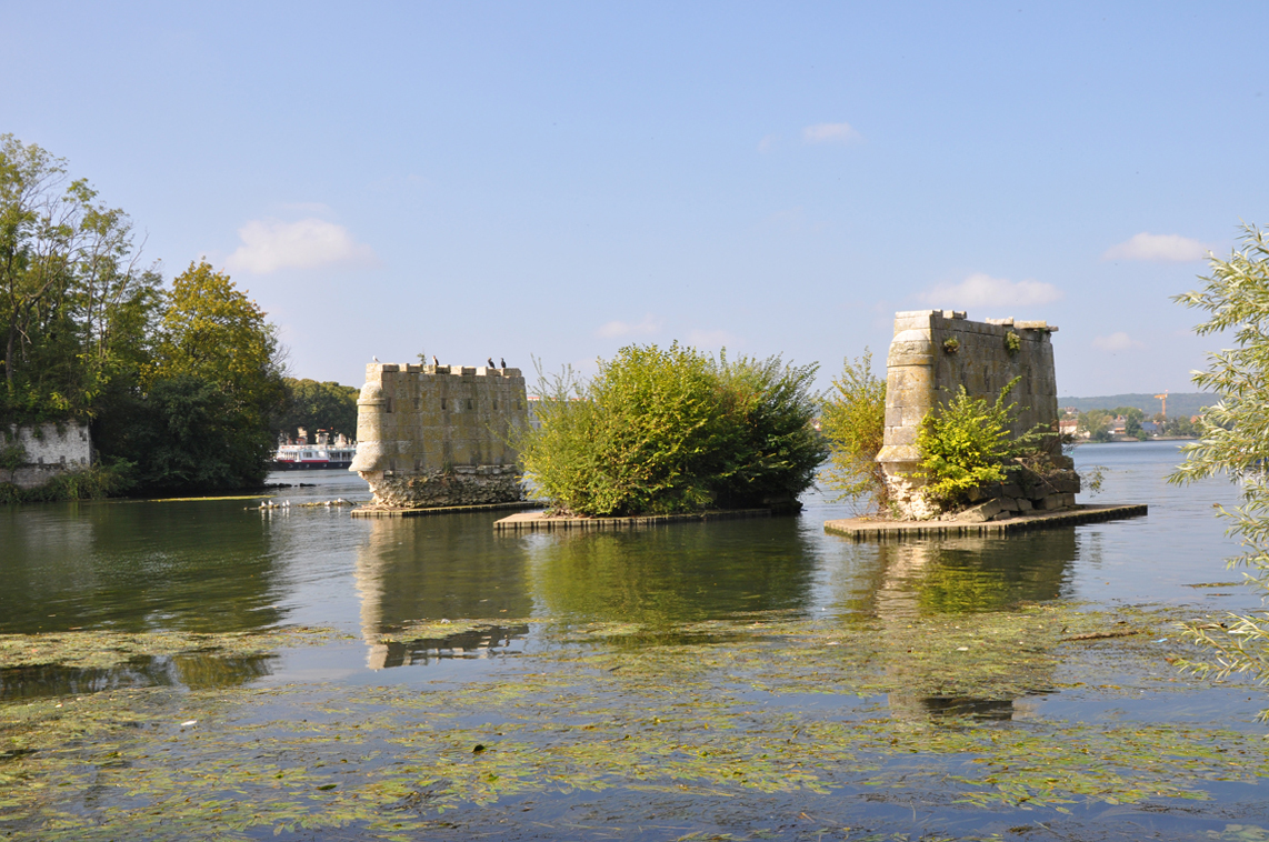 Ruins of medieval bridge in Vernon (France)